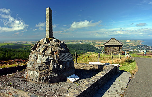 Guthrie's Memorial. On the TT course, high above Ramsey (in the background).